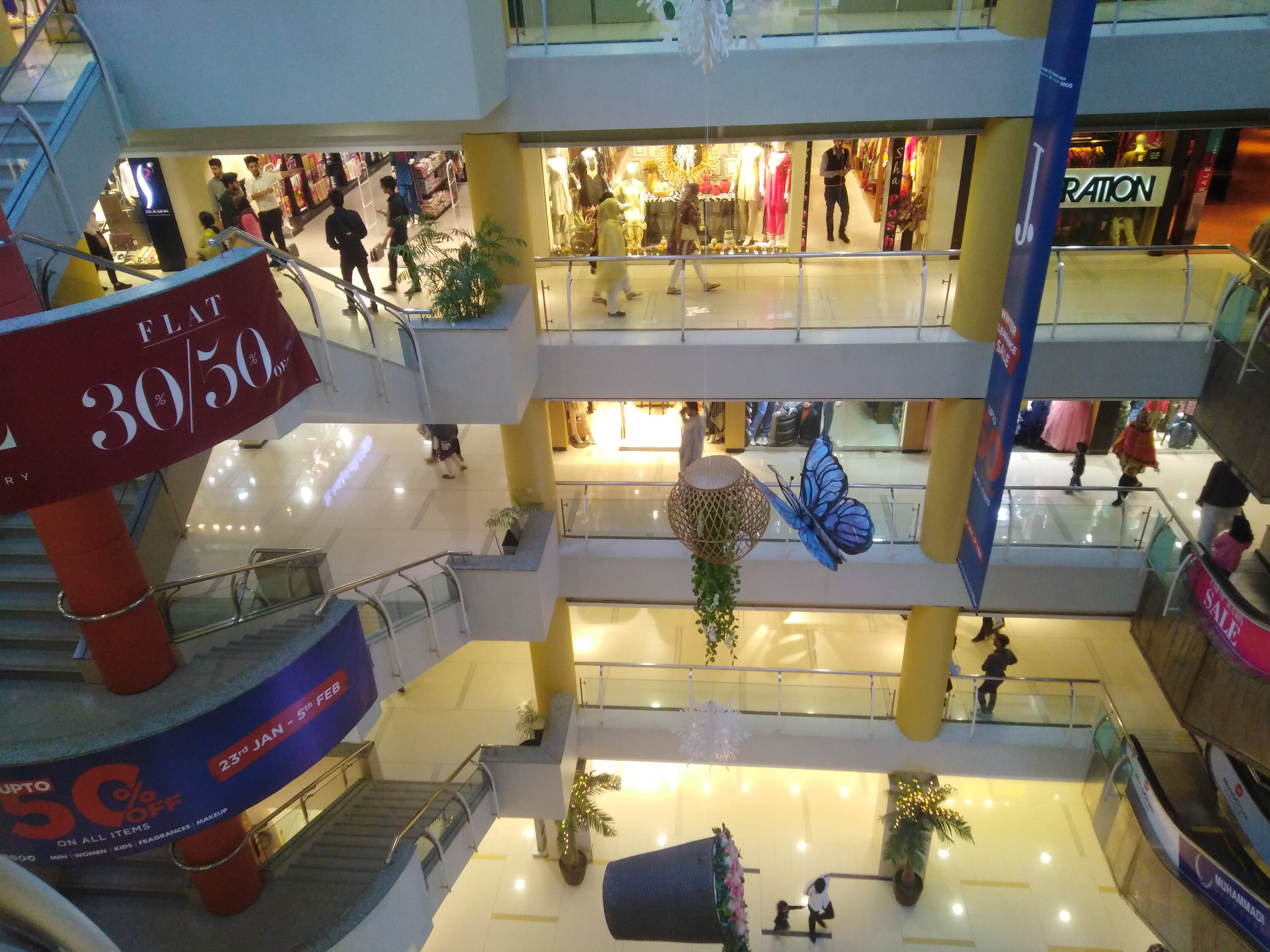 It is captured by me.